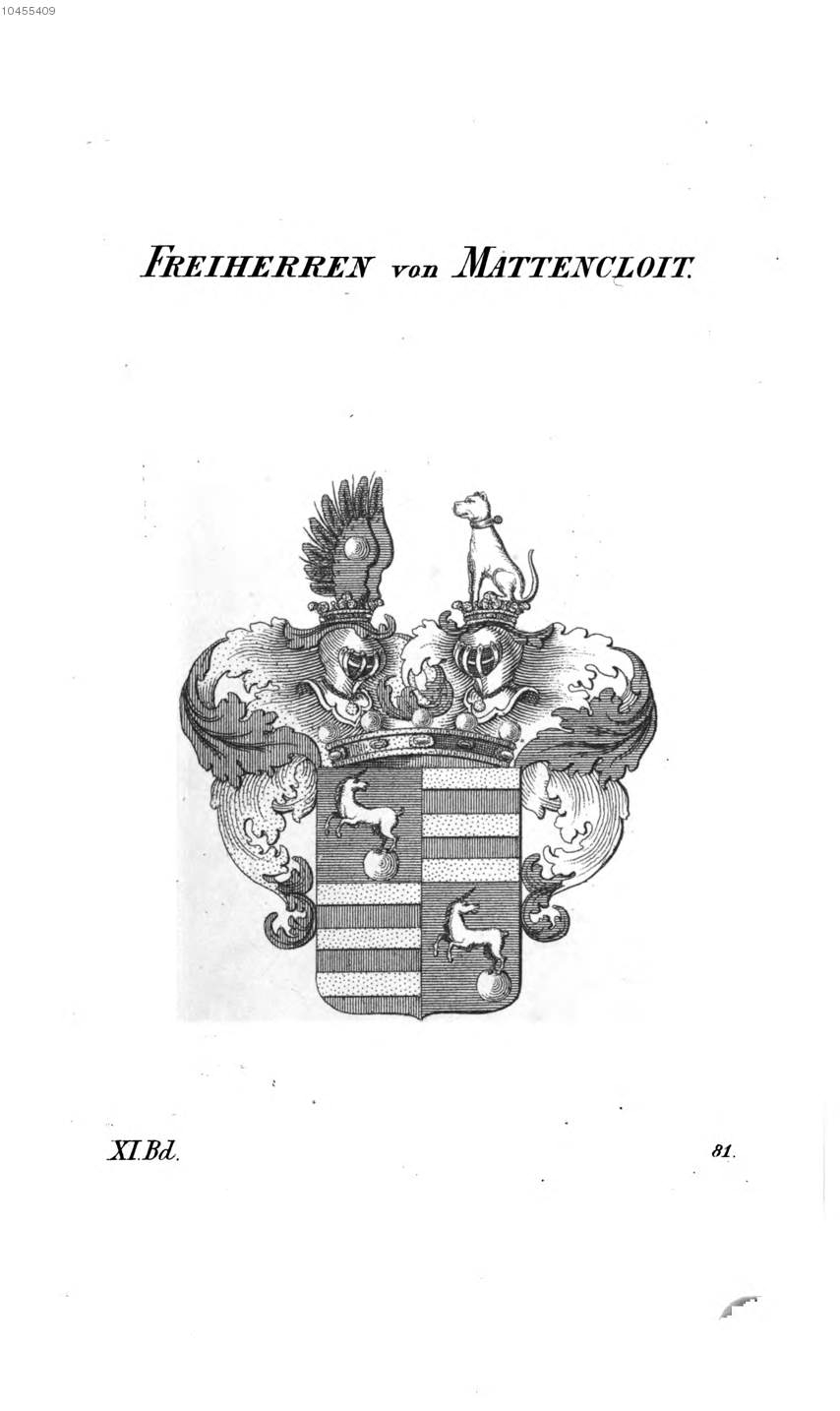 Wappen Mattencloit - Tyroff AT.jpg